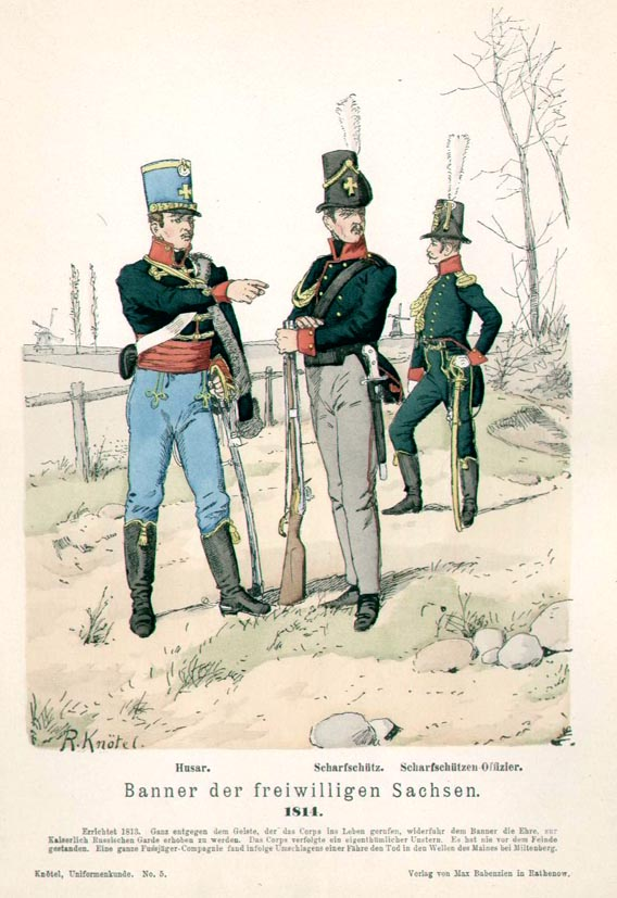 Sachsen. Banner der freiwilligen Sachsen. 1814